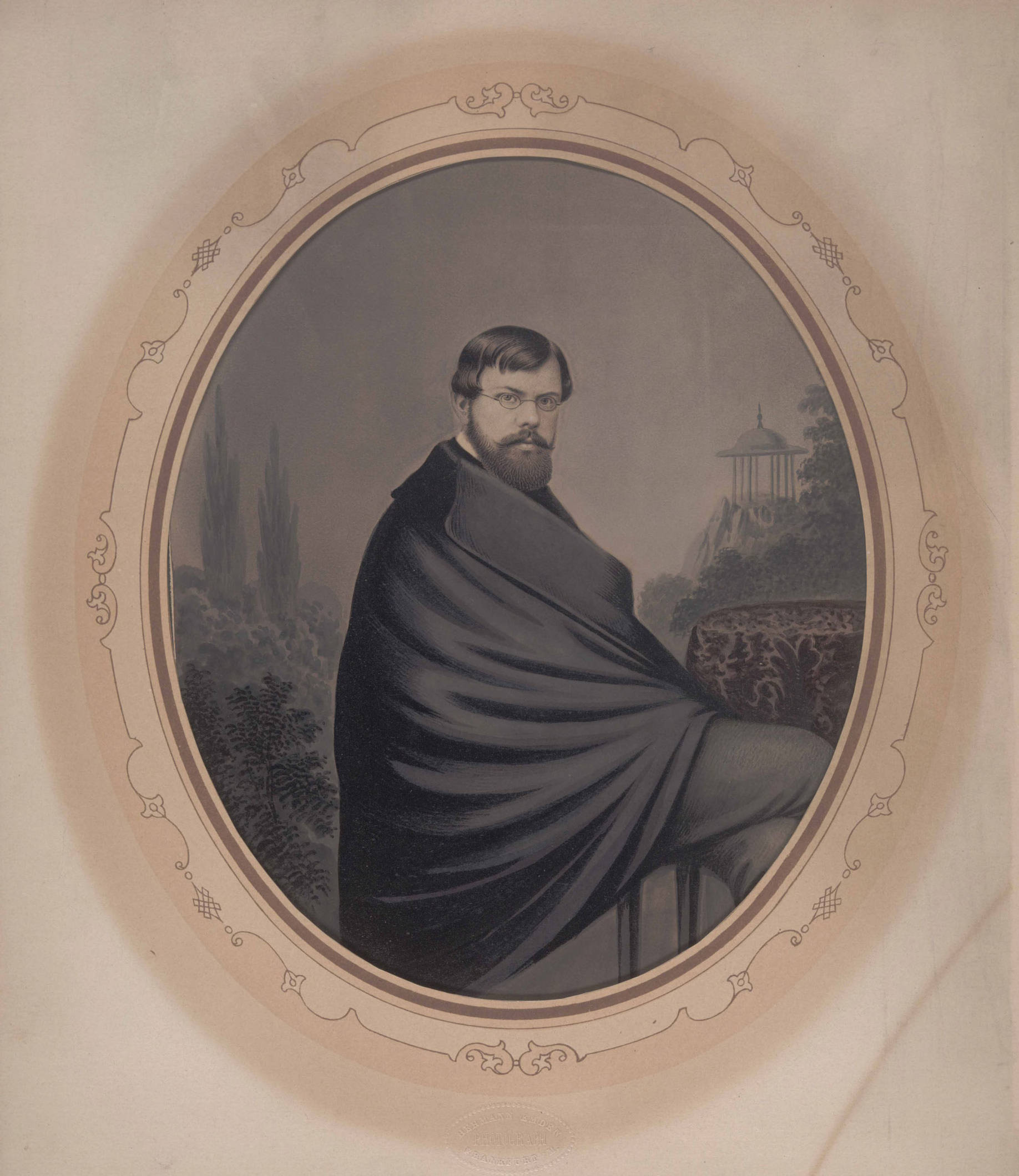 " A seated portrait of the historian and librarian Justin Winsor at the age of 23. He is seated on a chair wrapped in a large black cape looking directly at the viewer. He is posed against a painted backdrop depicting a garden scene. In October of 1852, Winsor left the States for a two-year sojourn in Europe, spending his time primarily in Paris and Heidelberg studying languages. Photograph has been heavily painted over in wash, oil, and gum arabic. It has been covered with an decorated oval mat with the photographer's stamp in the lower center edge. Photographer's imprint on verso. Hand-written in ink on imprint: Justin Winsor/Taken at Heidelberg, 1854. Gift of the Estate of Miss Penelope B. Noyes, September 1977. #1977.31b (no.2)."